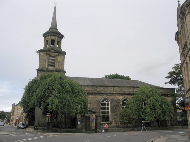 Photograph